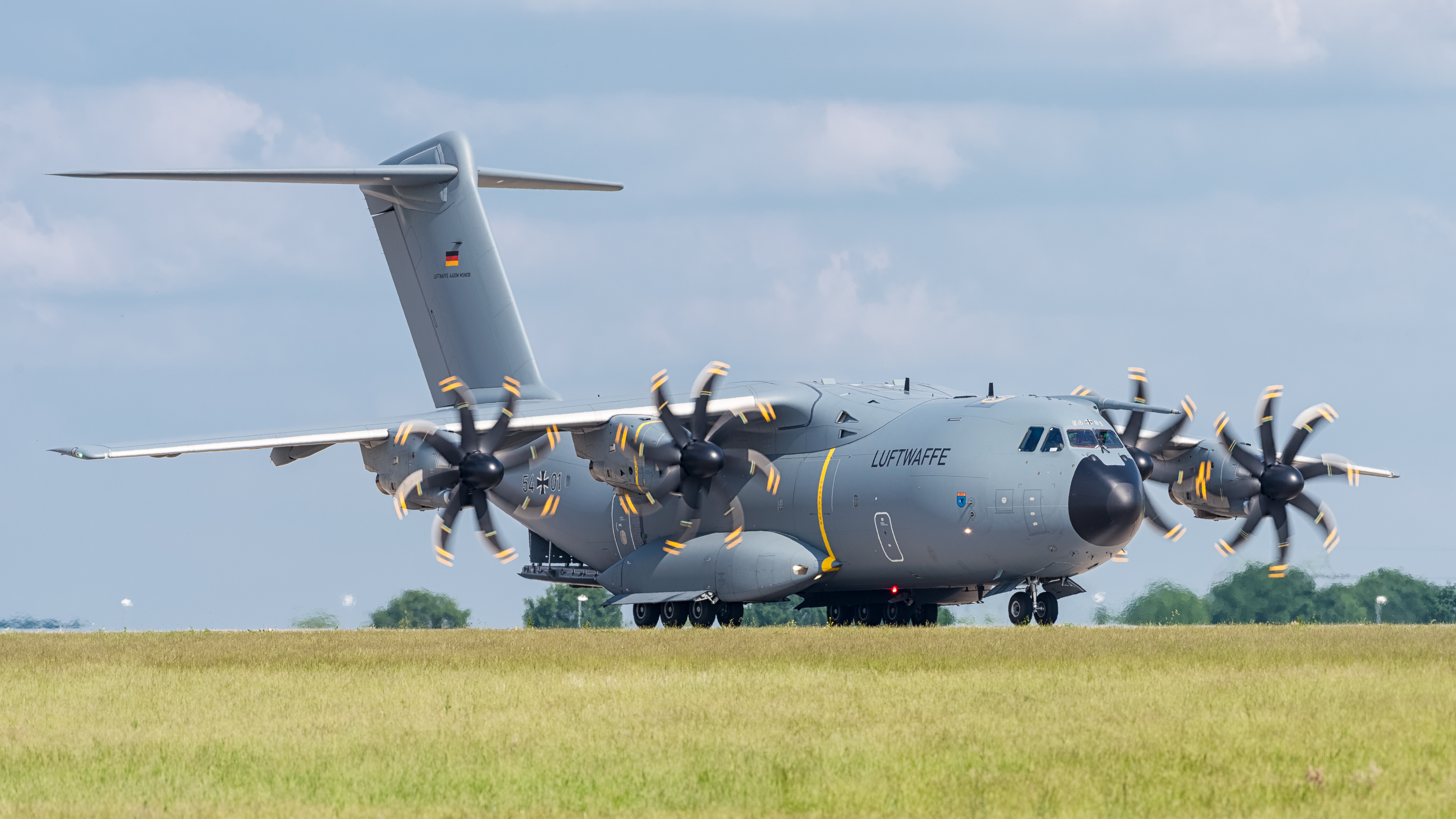 German Air Force Airbus A400M (reg. 54+01, cn 018) at ILA Berlin Air Show 2016.